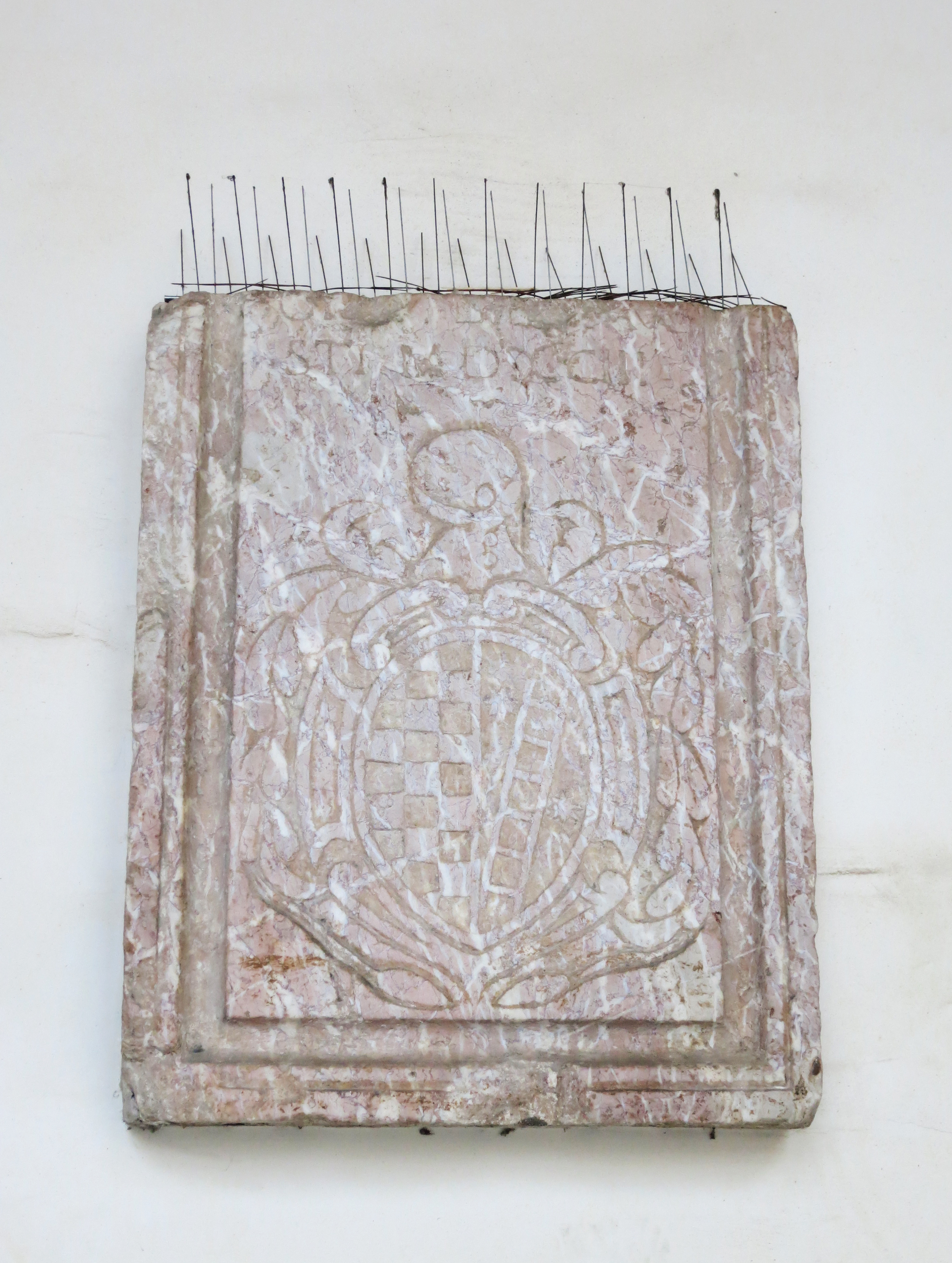 St. Mary Cathedral - Rieti, Lazio, Italy